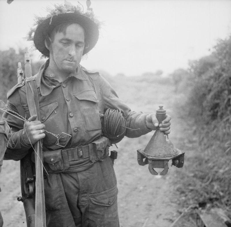 The British Army in Normandy 1944 Lance Corporal Lodge of 278 Field Company, Royal Engineers, holding a German hollow charge anti-tank magnetic mine during Operation 'Epsom', 26 June 1944.